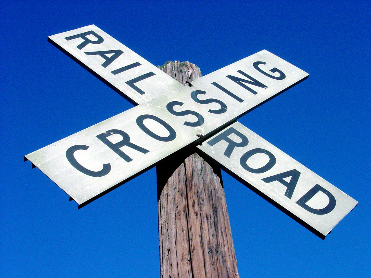 Railroad crossing sign against a deep blue sky.Railroad Crossing